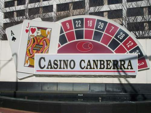 Canberra Casino sign.